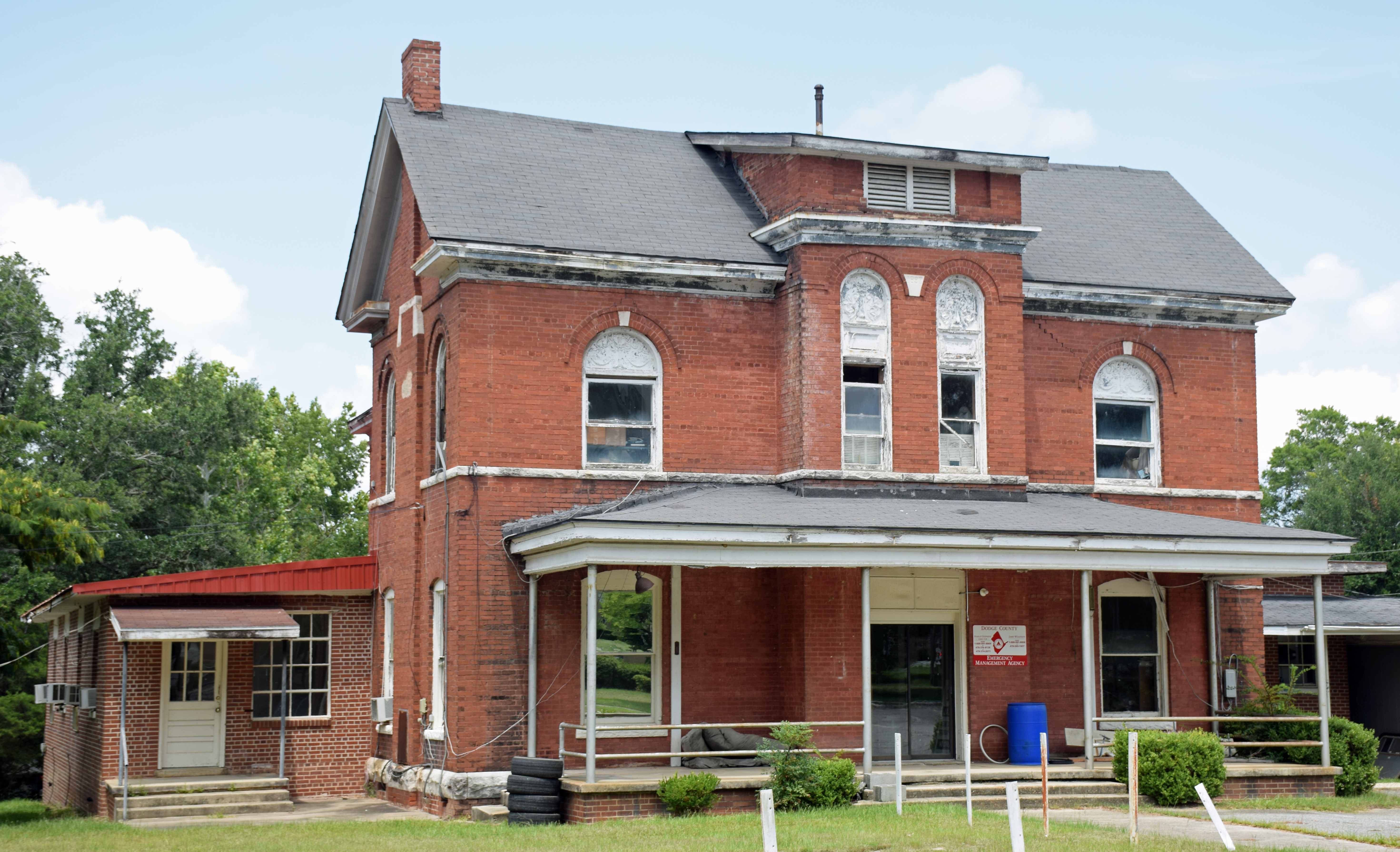 The old Dodge County Jail, in Eastman, Georgia, US. Listed as a place in peril